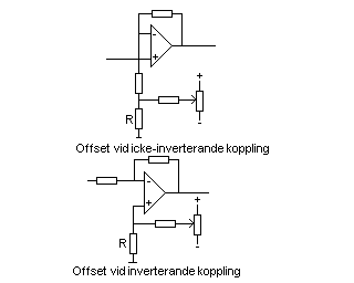 offset adjustment methodes